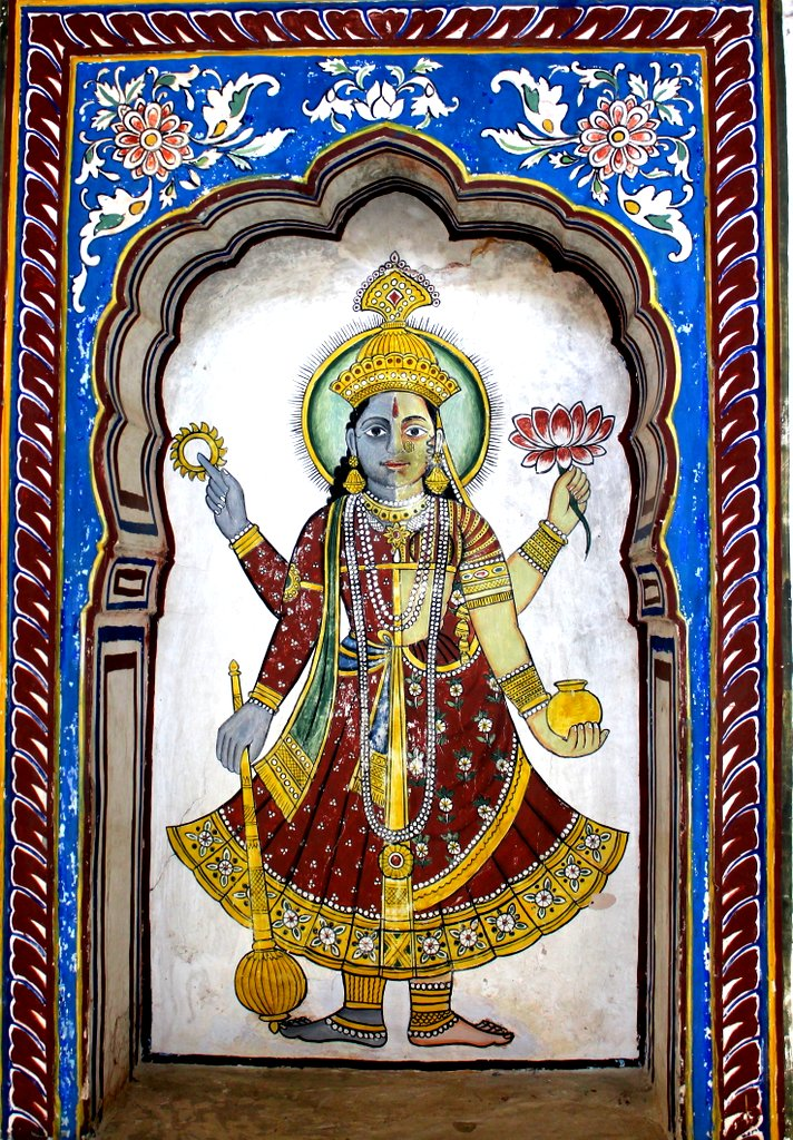 Vaasudeva-Kamalaja (Vaikuntha Kamalaja). The mural painting in the Podar Haveli Museum (Nawalgarh, Rajasthan, India)